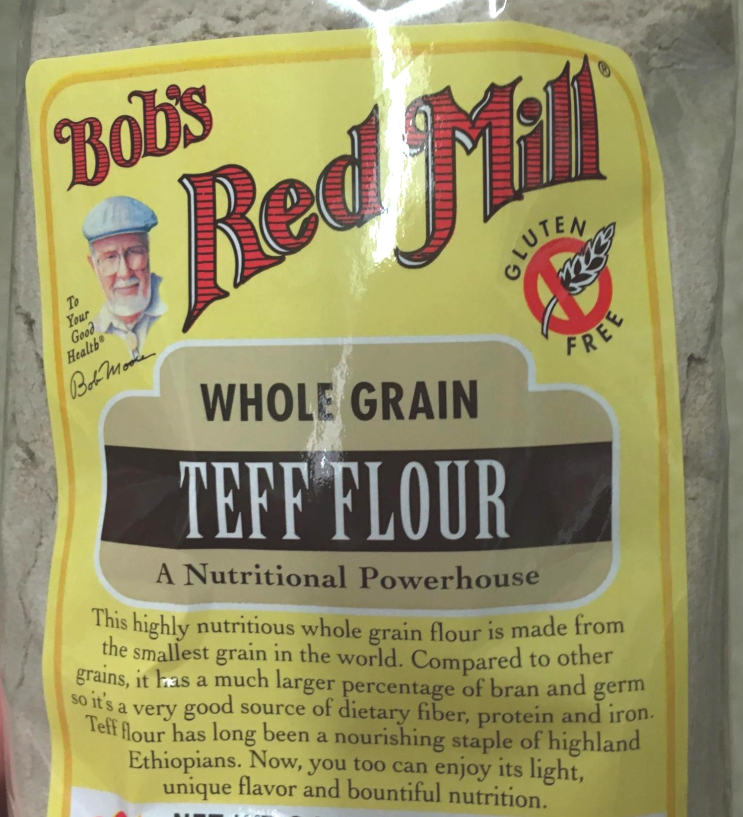 Bob's Red Mill Whole Grain Teff Flour